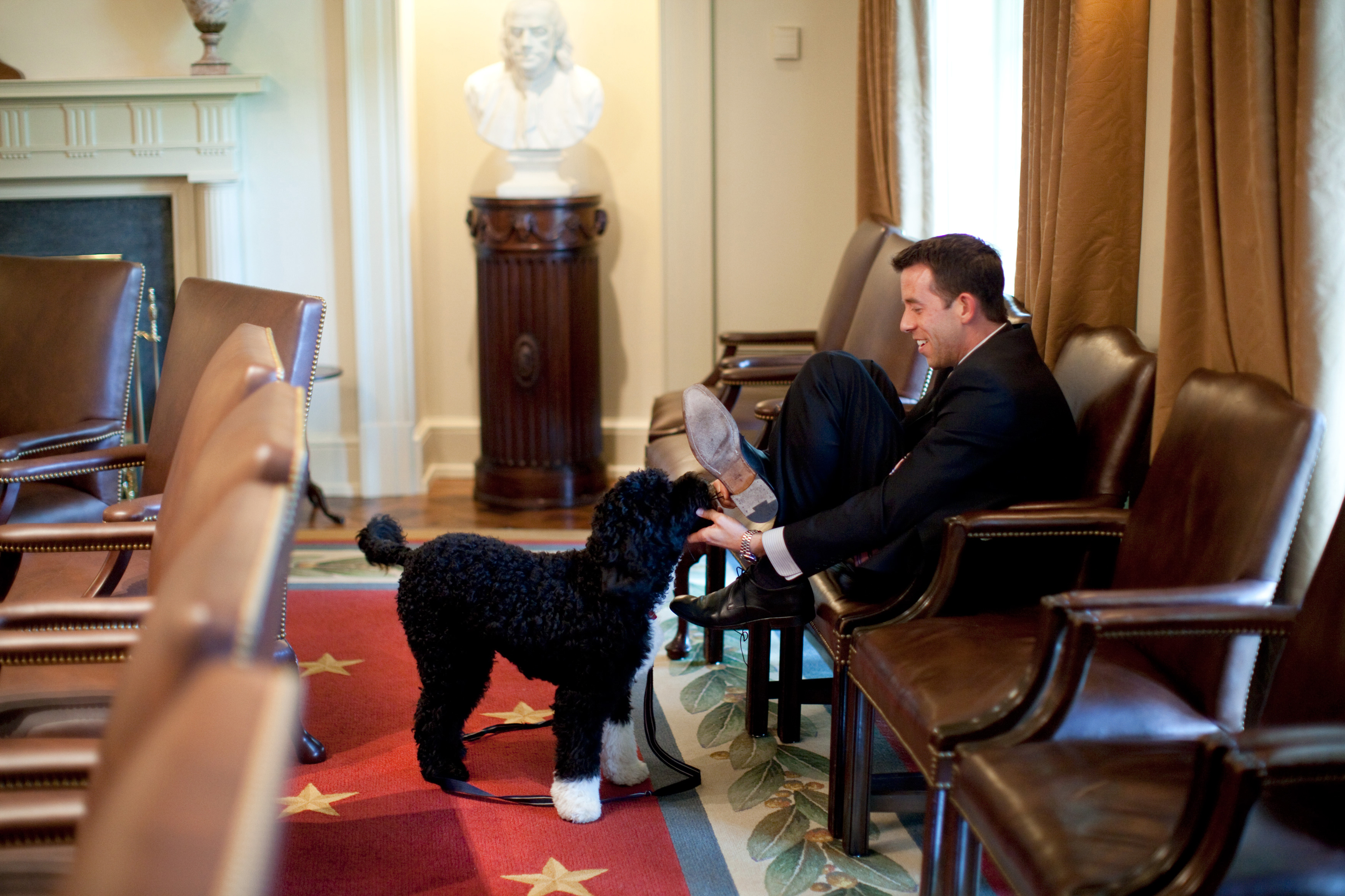 A White House Deputy Director of Oval Office Operations Brian Mosteller attempts to protect his shoes as he plays with the Obama family dog Bo in the Cabinet Room at the White House.